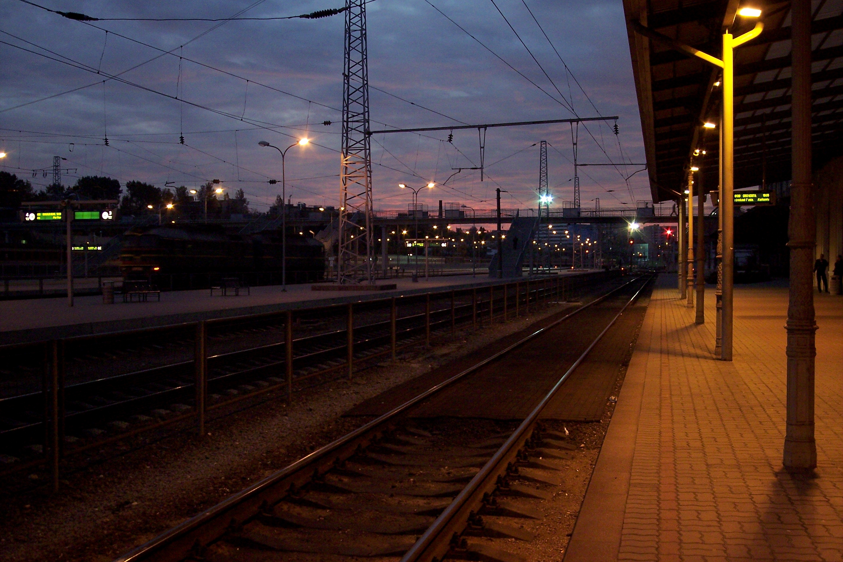 The railway station in Vilnius (2008), waiting for the train to the airport.